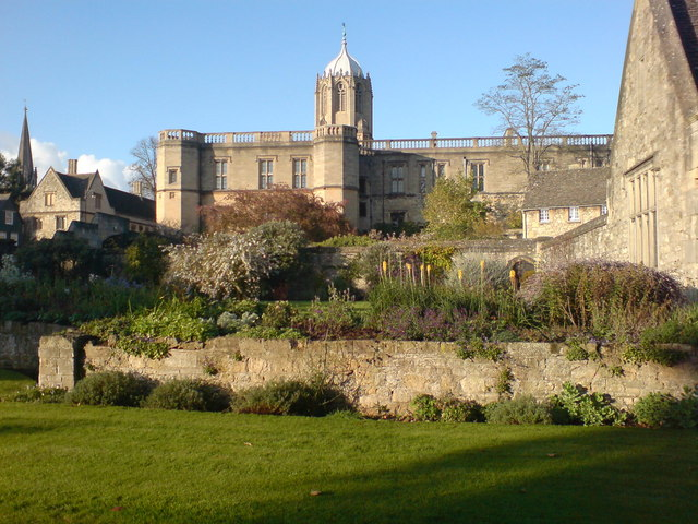 Christ Church War Memorial Garden from Broad Walk The attractive Christ Church War Memorial Garden is seen on the way from St Aldate's along Broad Walk to Christ Church Meadow. Tom Tower appears over the top of the college buildings